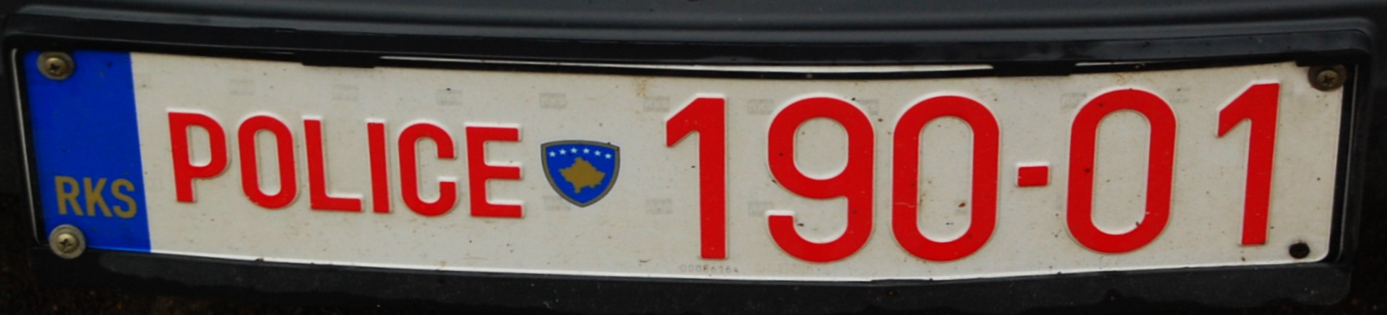 Registration plate of Mercedes Republic of Kosovo police forensic crime scene vehicle 190-01 outside Police Station 2, in the capital, Pristina. Same as in File:Pristina police vehicle - 04.JPG.